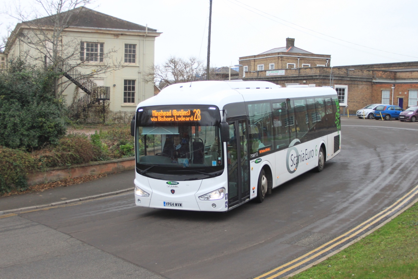 A Euro 6 demonstrator bus leaves Taunton for Minehead while on loan to the Buses of Somerset. YP64WVW has a Scania K250UB chassis and carries an Irizar I3LE body, a rare type in the United Kingdom.